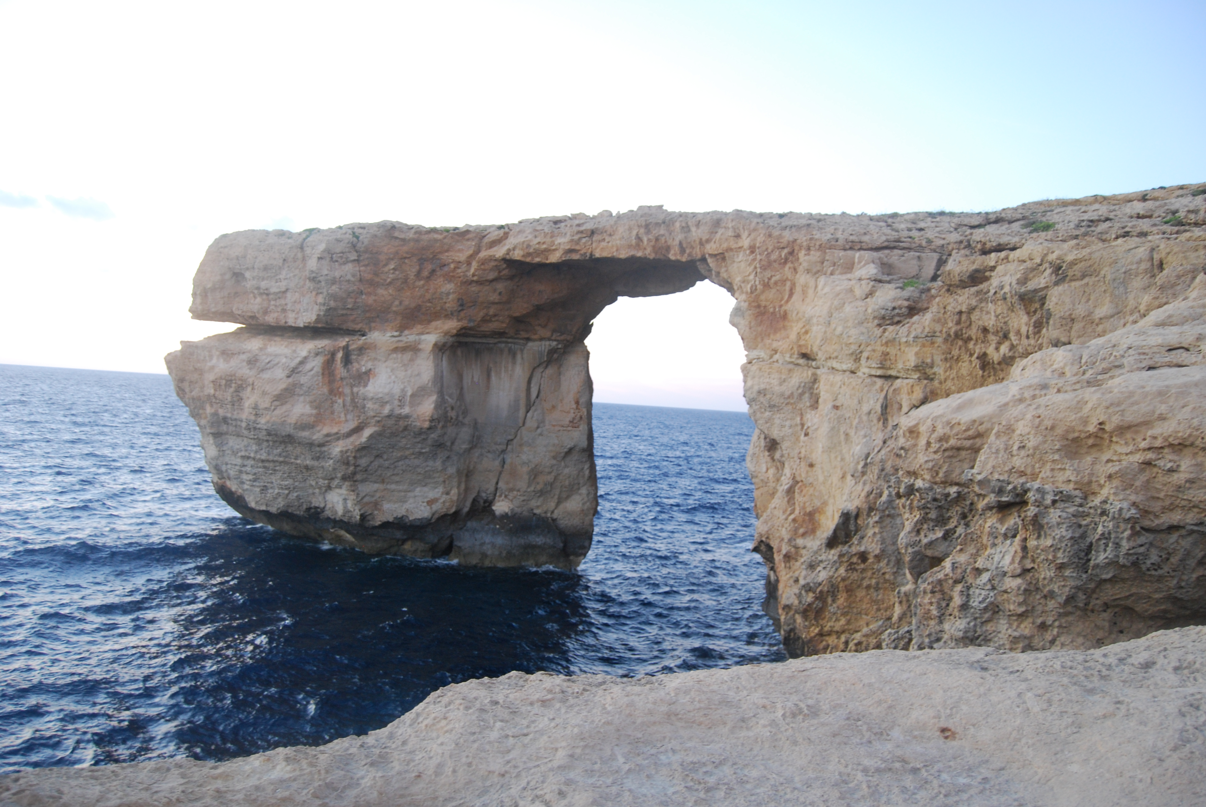 Azure Window, Saint Lawrence, Gozo, Malta